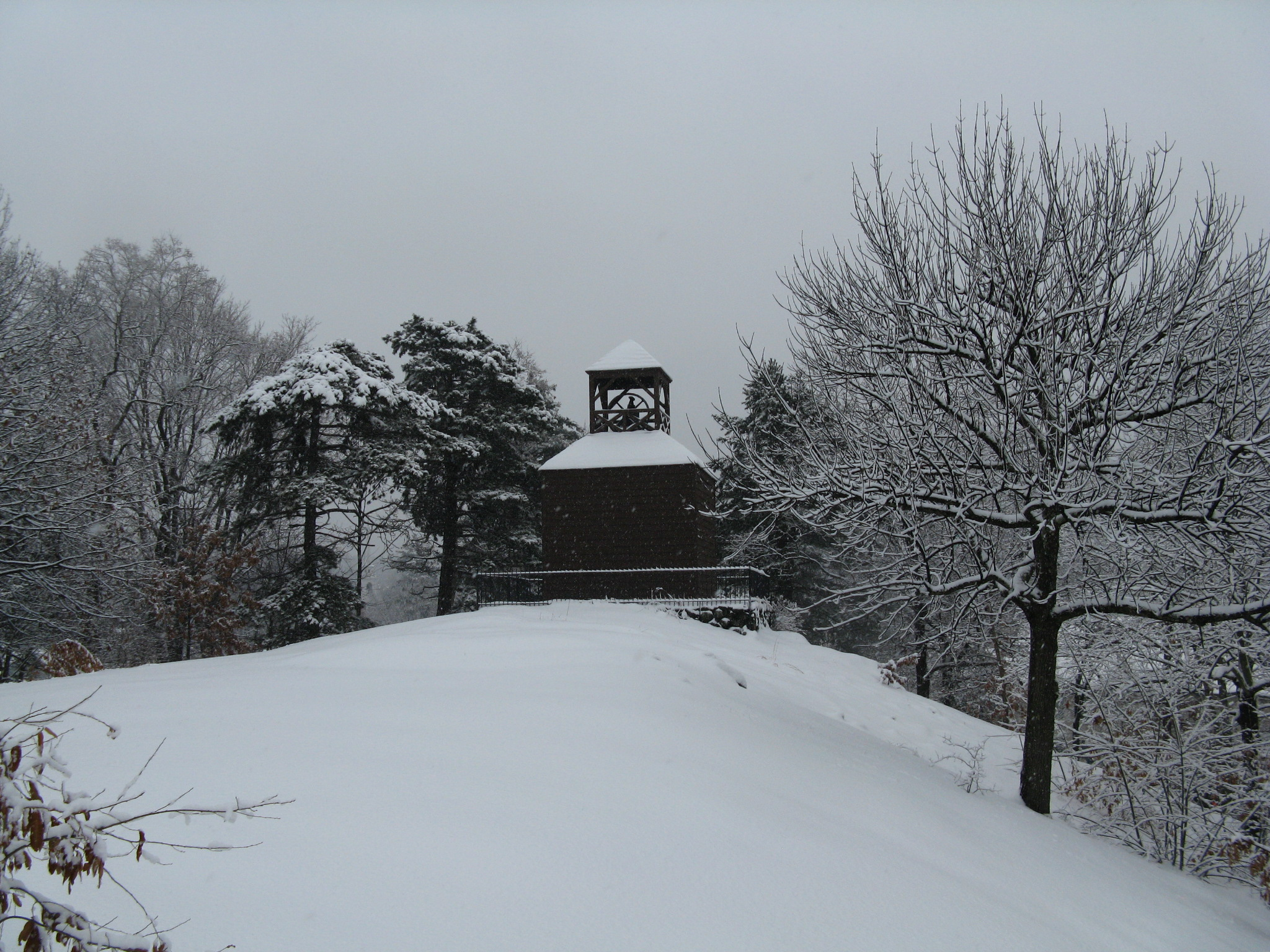 Old Belfry, Lexington Massachusetts